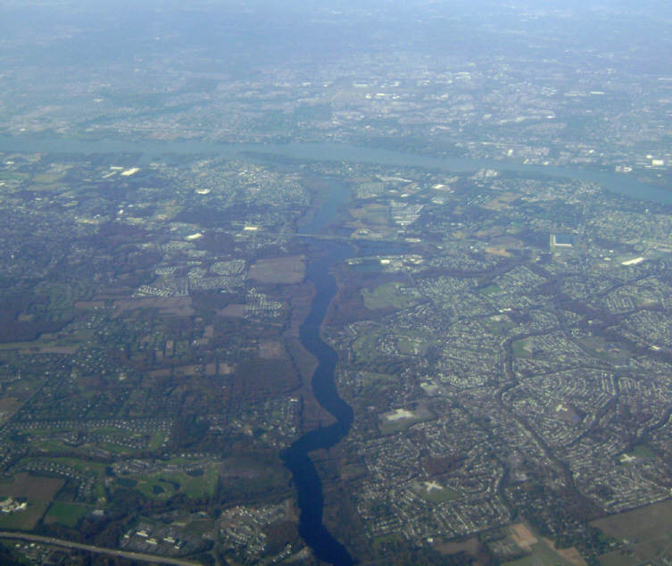 Rancocas Creek, in Burlington County, New Jersey, USA seen from a plane en route to New York City. Photo shows the main stem of the creek (approximately 8 miles long) as it extends from Interstate 295 (lower left of photo) to its mouth at the Delaware River (upper center of photo).